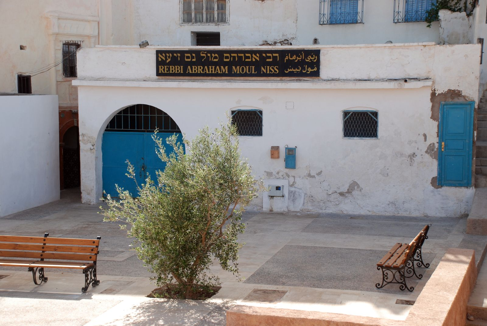 Azemmour, Morocco, synagogue